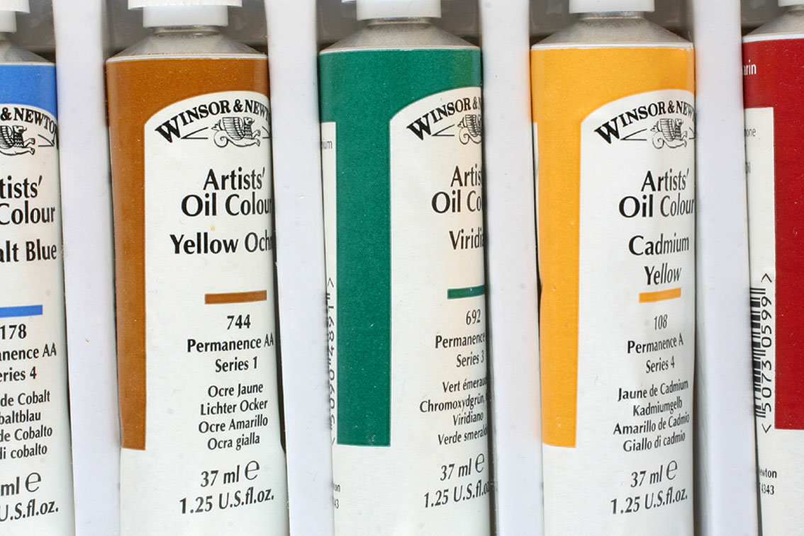 Artists Oil Paints